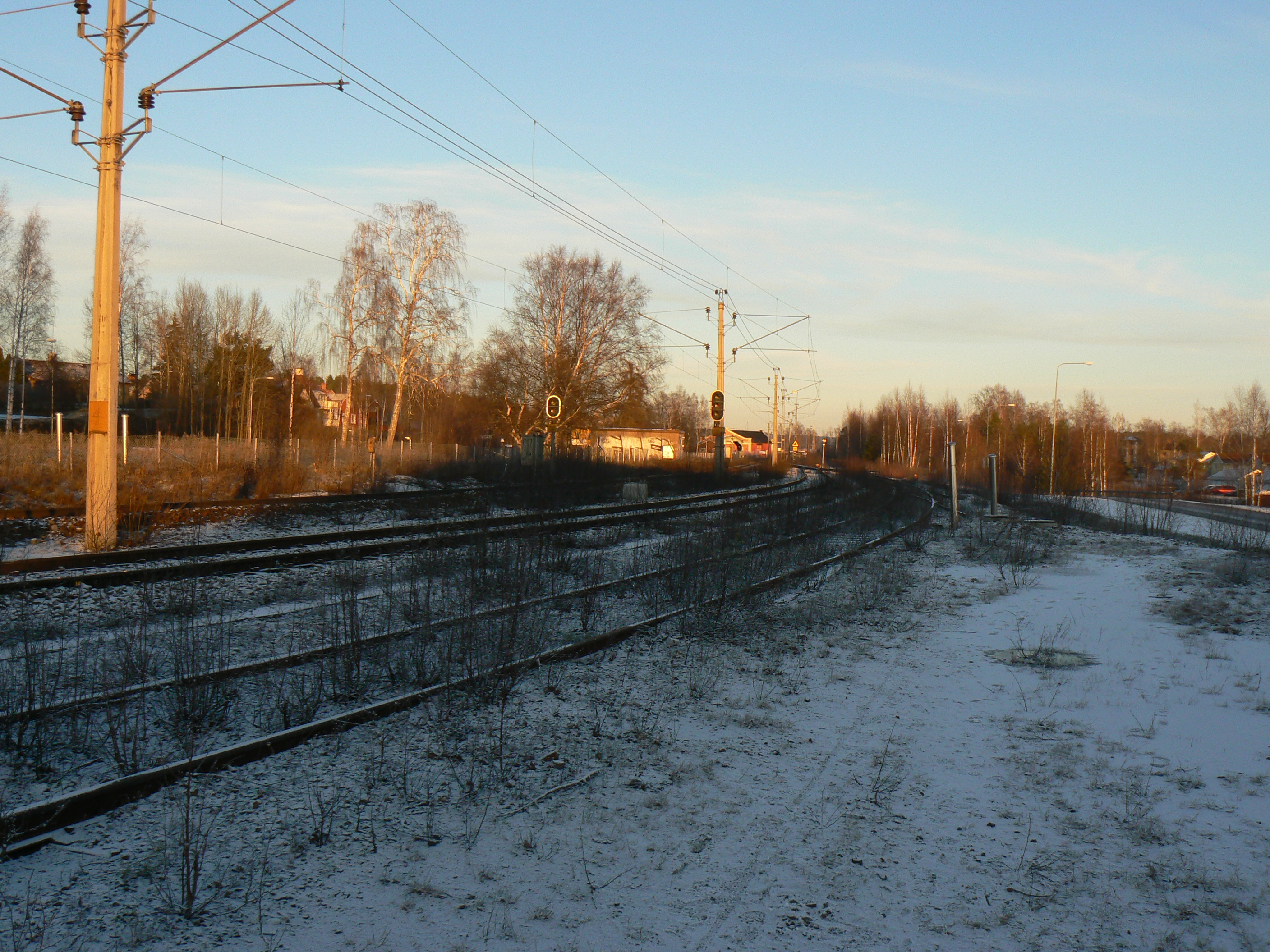 What is left of Korsnäs railway station in Falun, Sweden. Today it is only used as a place for trains to meet on this otherwise single track railway. Photo by Skvattram 2006-01-06.